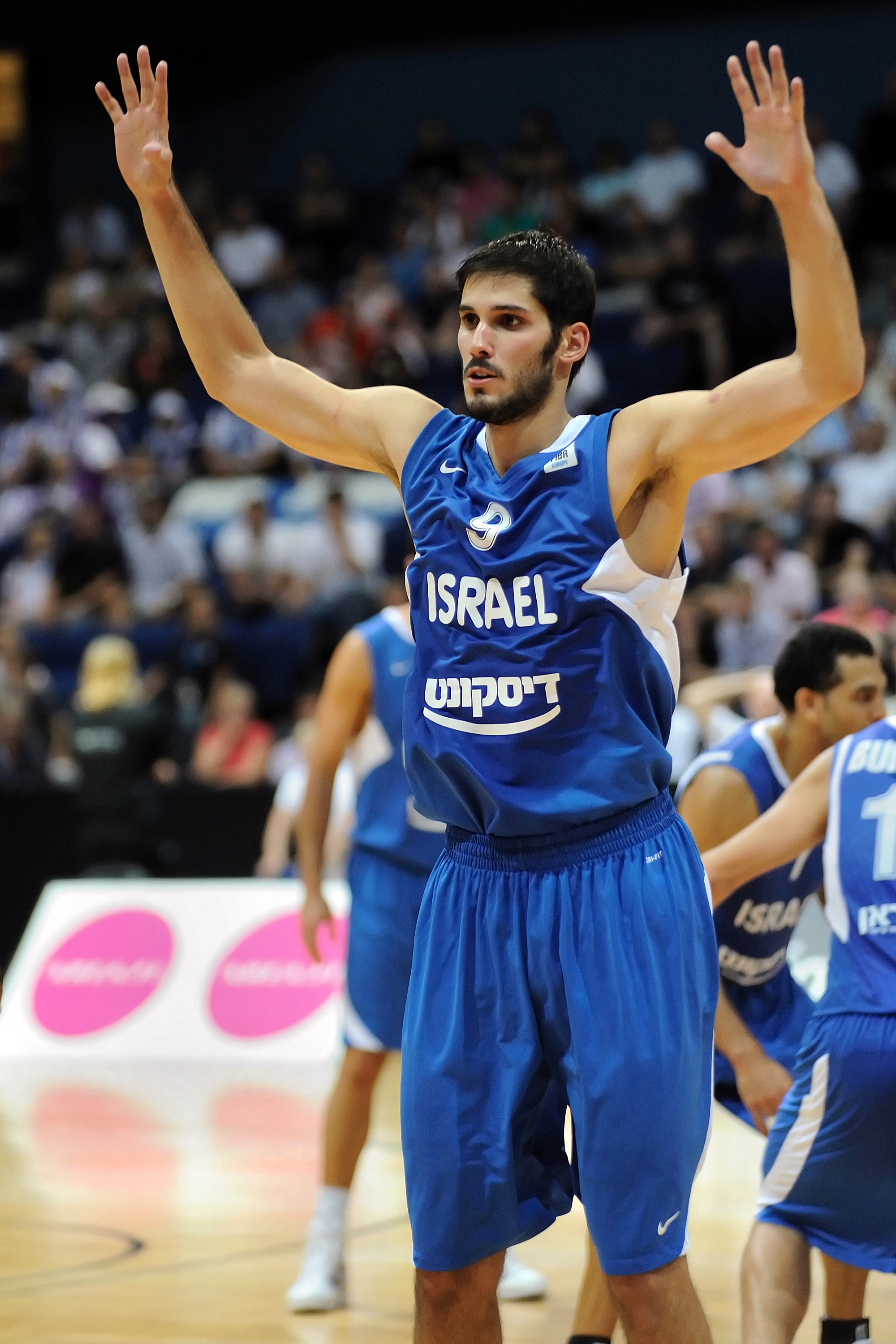 Basketball player Omri Casspi playing for Israel against Finland at Barona Arena in Espoo, Finland. Finland won the game 84-83.